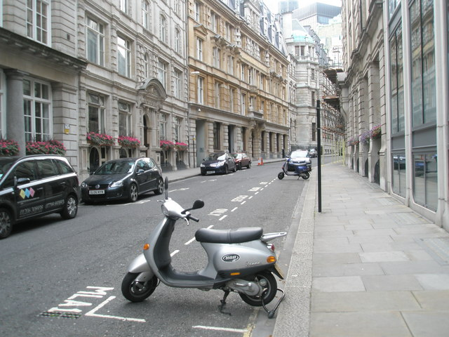 Lloyds Avenue